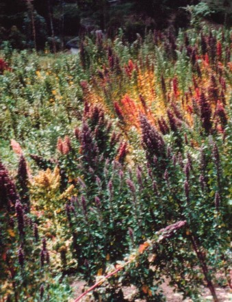 Cultivo indígena en Guachucal, Nariño, Colombia. Imagen tomada por Hhmb en 1980. This image was maked by me in 1980.